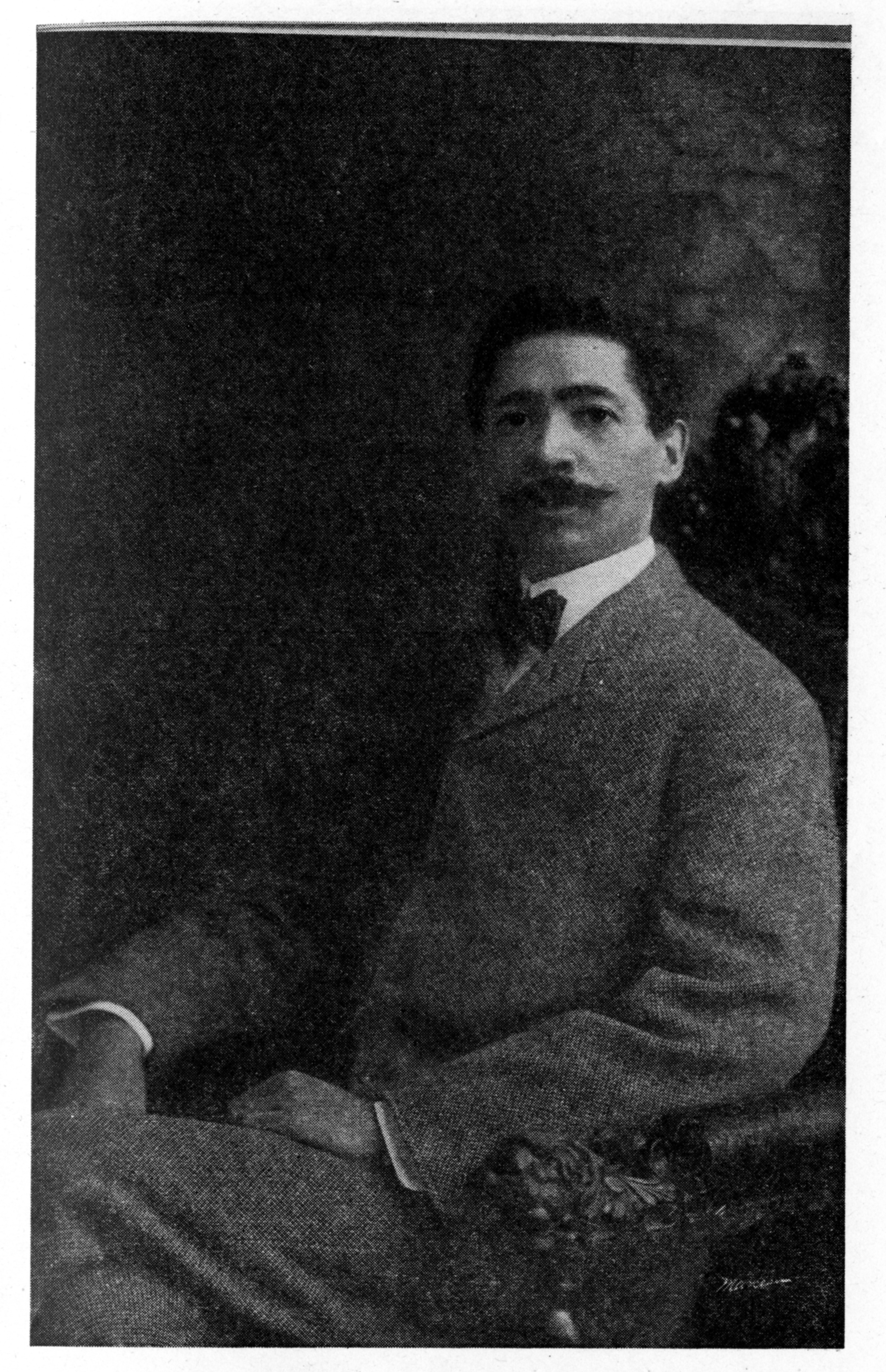 Photograph of Will Marion Cook